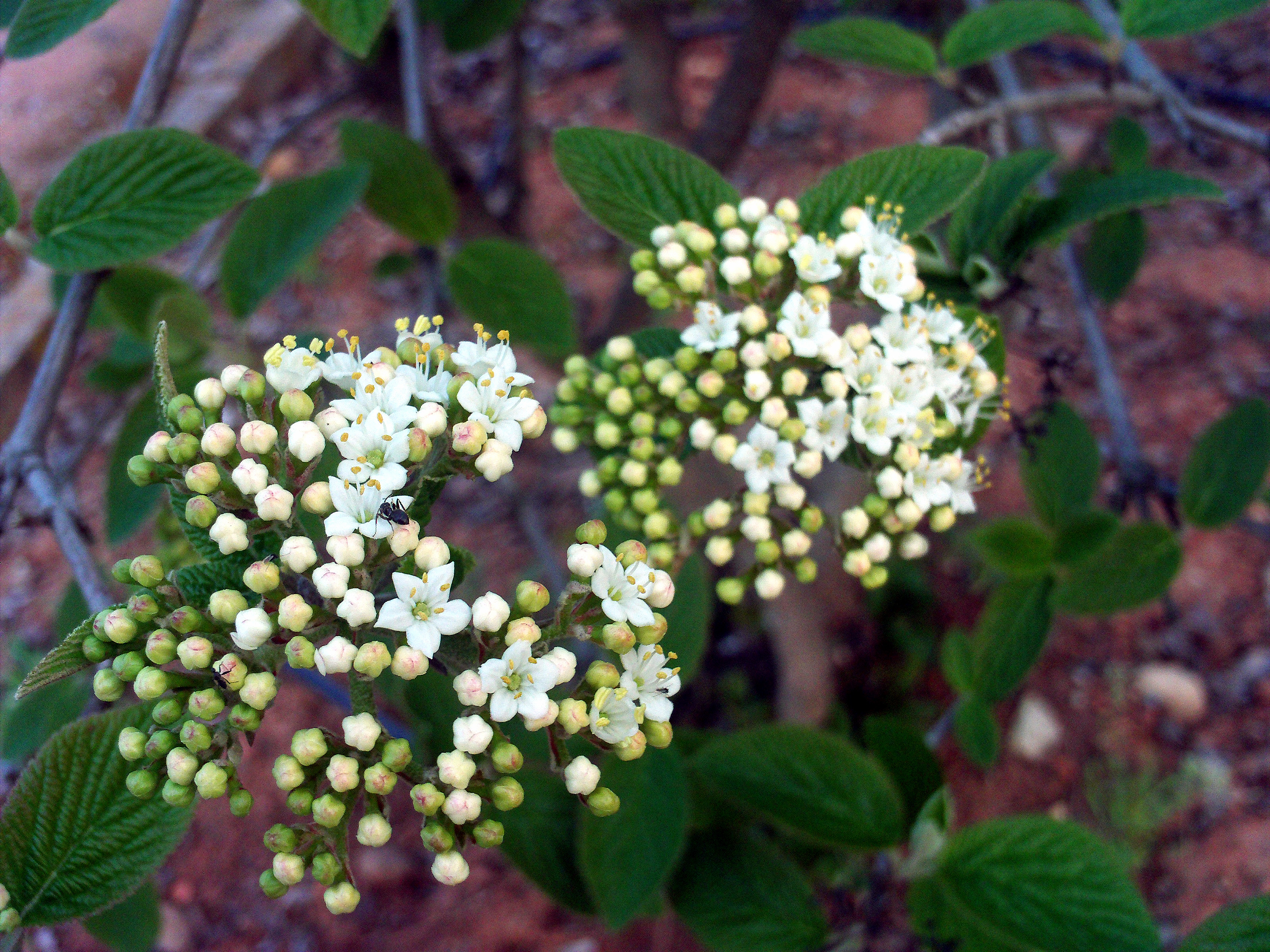 Viburnum lantana Flowers close up Dehesa Boyal de Puertollano, Spain